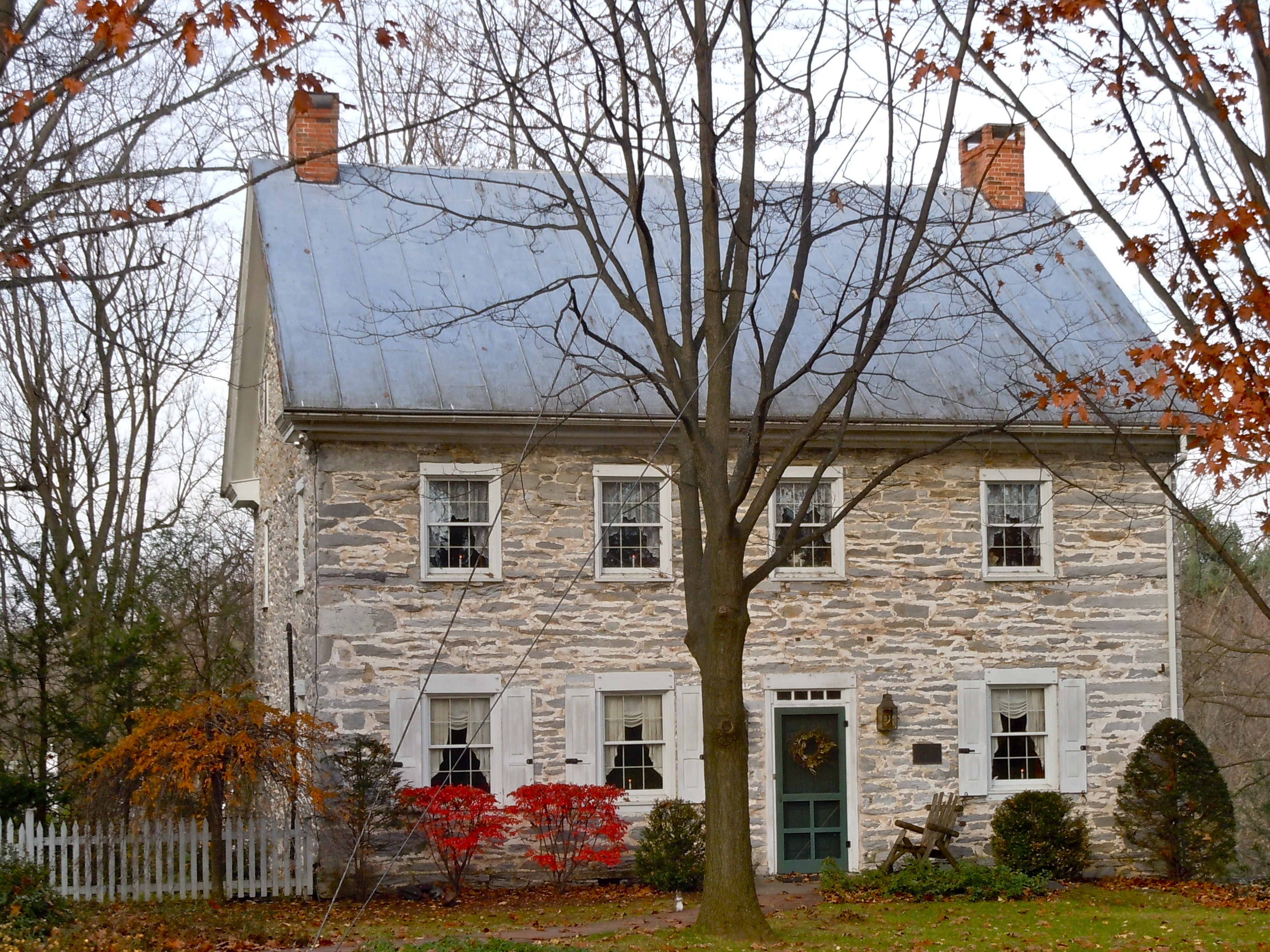 Gloninger Estate on the NRHP since December 10, 1980. At 2511 West Oak Street, on the southwest outskirts of Lebanon, North Cornwall Township, Lebanon County, Pennsylvania.